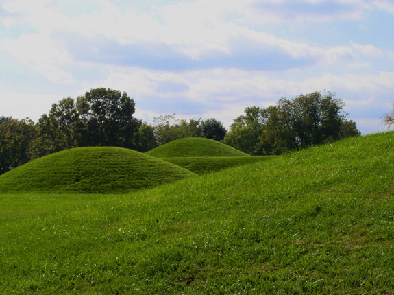 A photo of the Mound City Hopewell site in Chillicothe, Ohio.